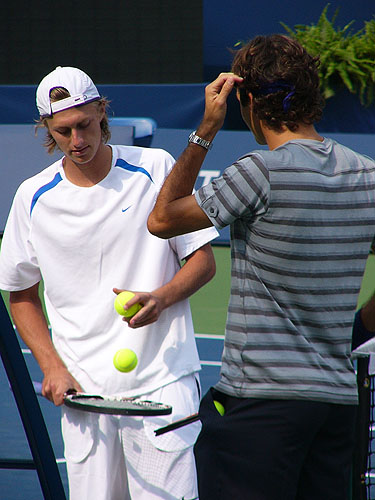 Peter Polansky practising with Roger Federer at the 2008 Rogers Cup